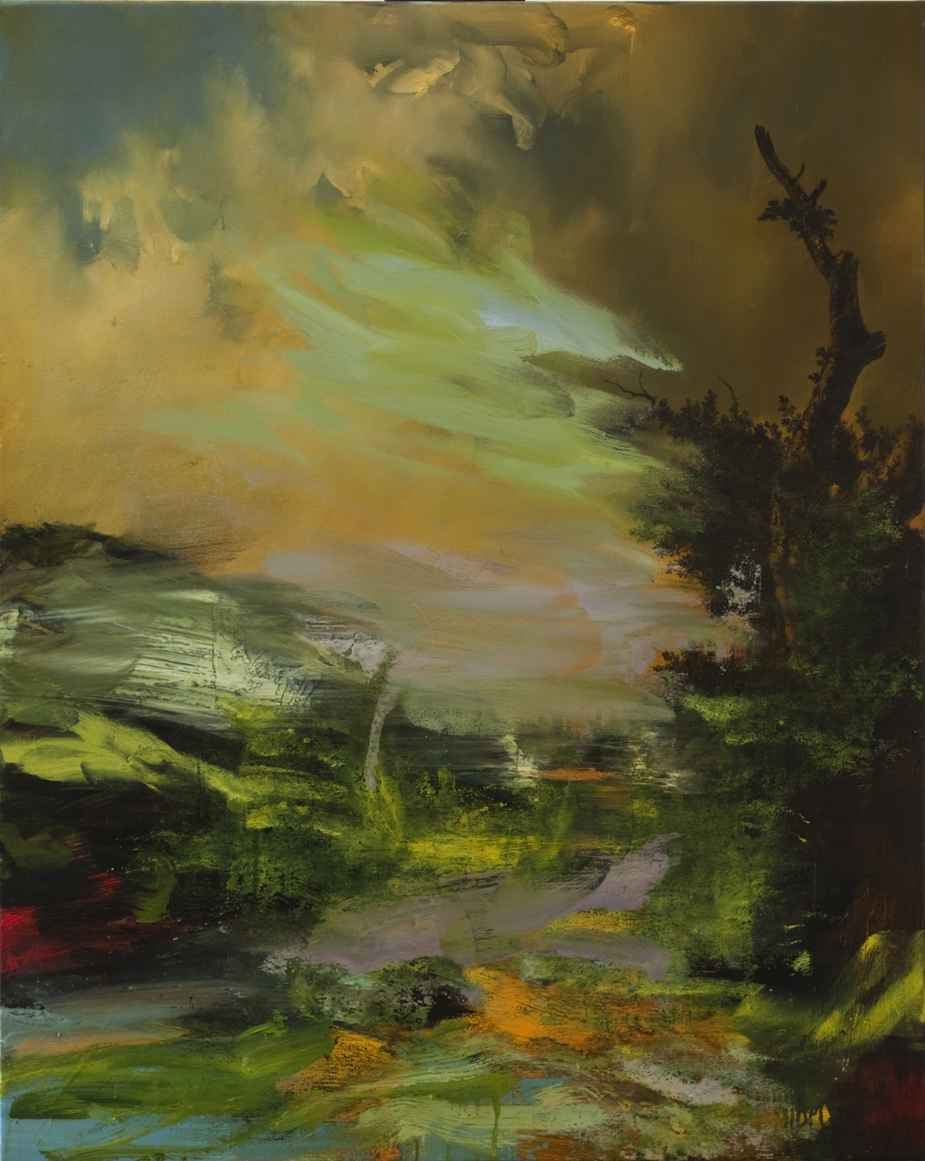 Painting by Alan Rankle